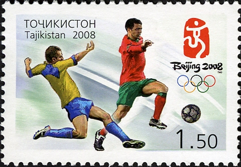 Stamps of Tajikistan